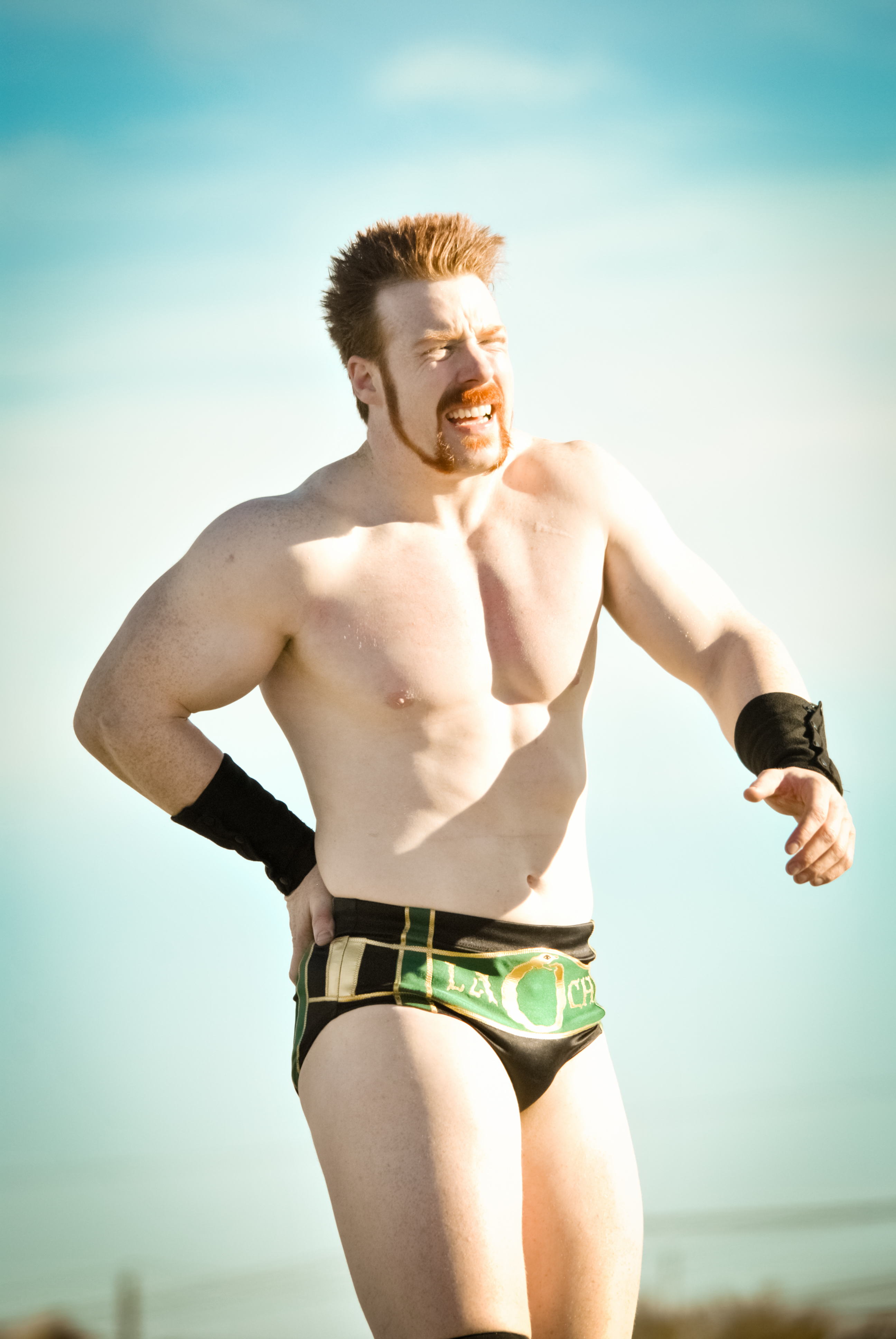 Stephen Farrelly (Sheamus) at WWE's Tribute to the Troops event on December 11, 2010 in Fort Hood, Texas.